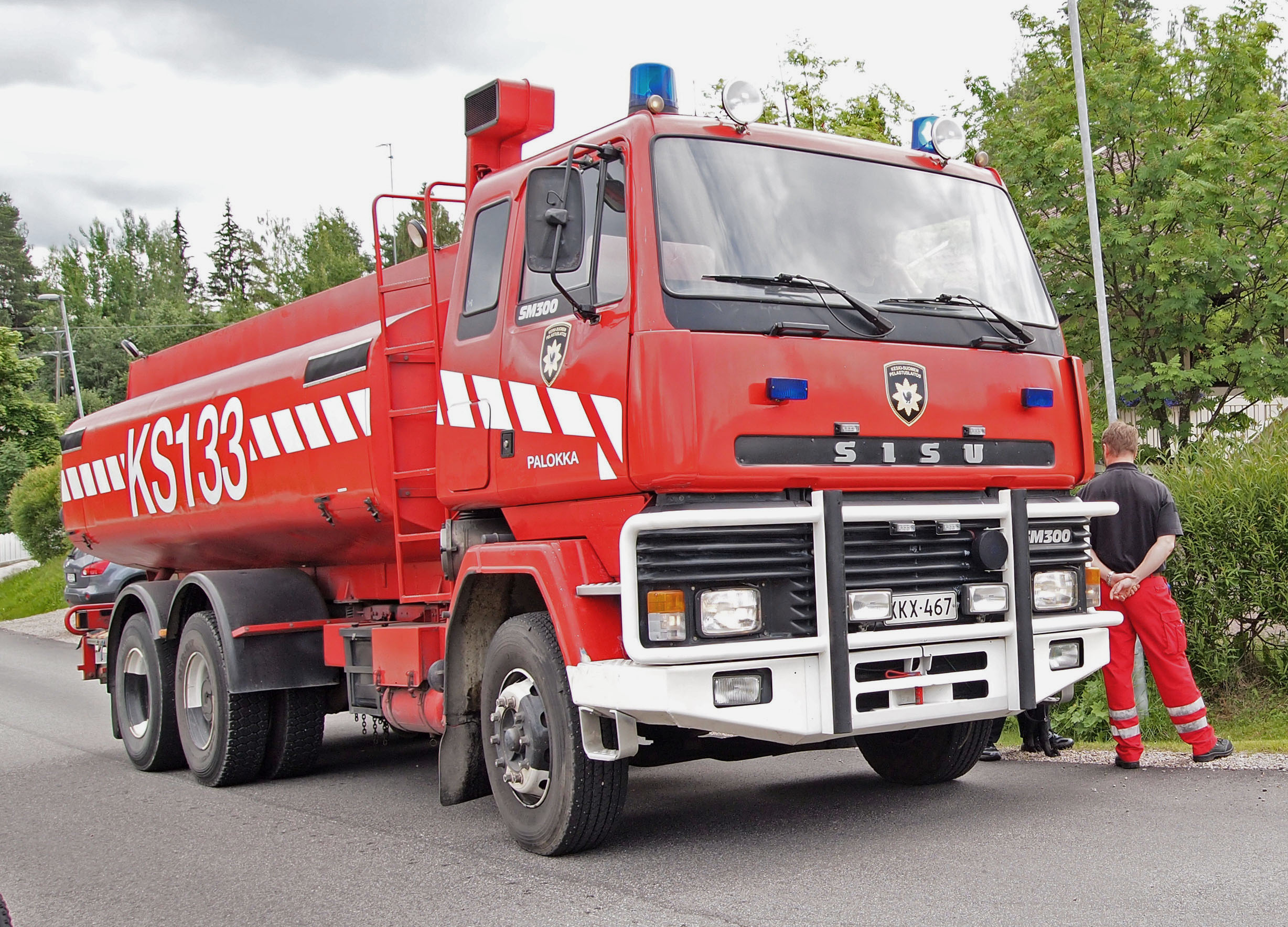 Sisu SM300 fire engine in Vaajakoski, Jyväskylä.